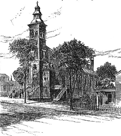 Engraving depicting the now-demolished St. Joseph's Church, Springfield, Massachusetts.